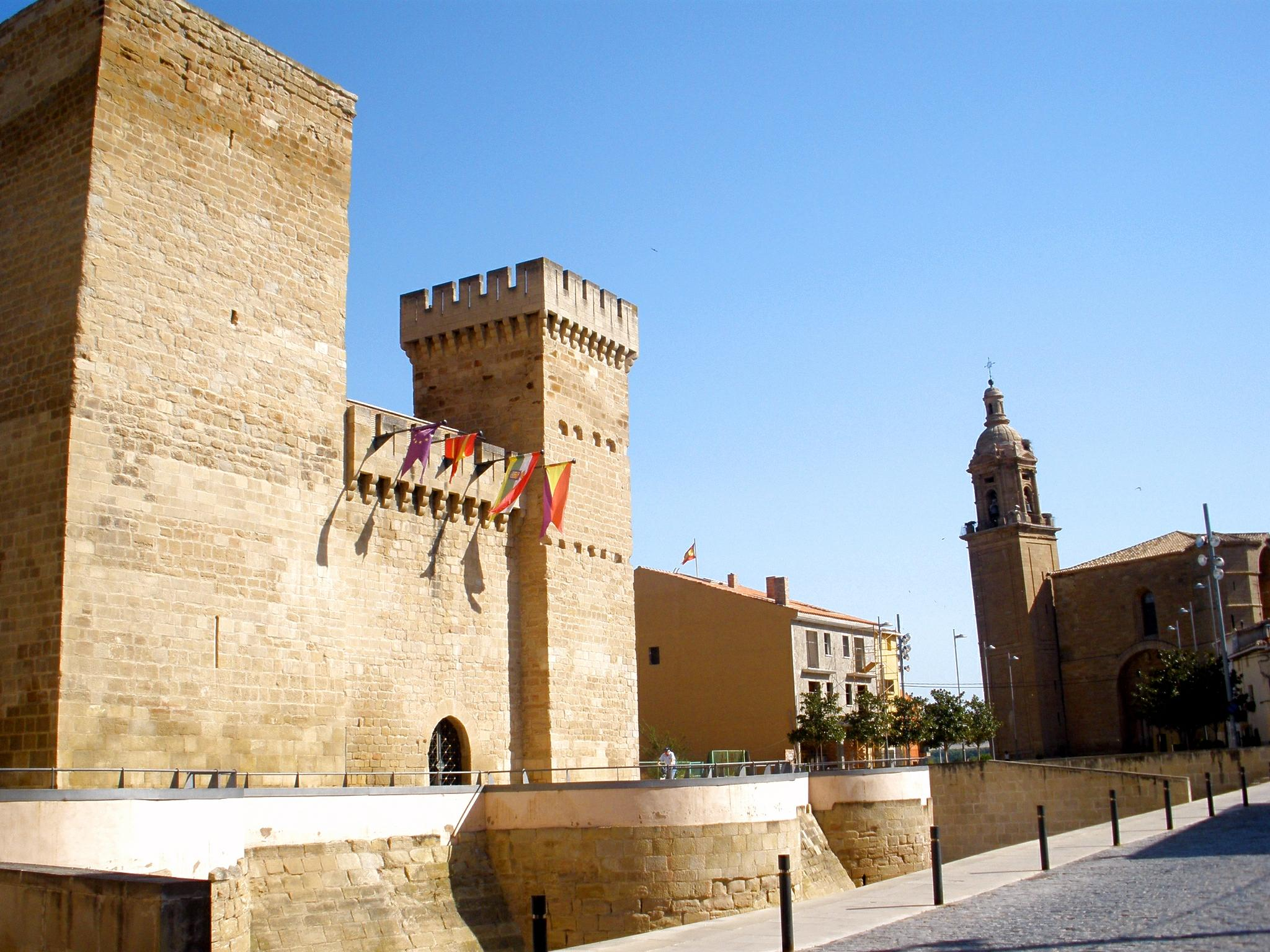 Castillo de Aguas Mansas, en Agoncillo (La Rioja, España)